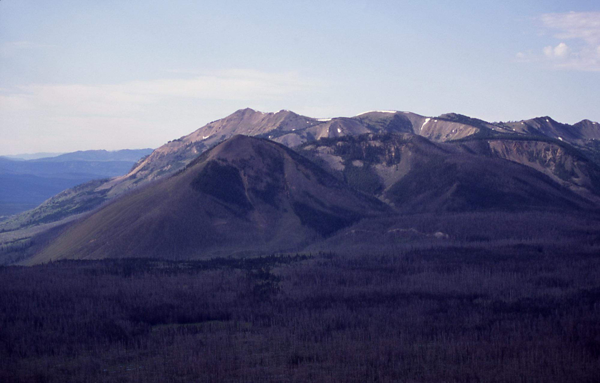 Red Moutains with Mount Sheridan behind Factory Hill, Yellowstone National Park, Wyoming